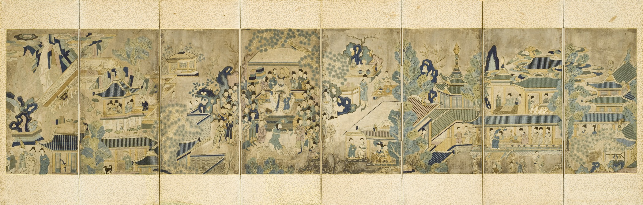 Korea, Korean, Joseon dynasty (1392-1910), 19th century Paintings; screens Eight-panel screen, embroidery on silk satin Image: 22 x 95 in. (55.88 x 241.3 cm); Overall screen: 31 1/2 x 96 in. (80 x 243.8 cm) Purchased with Museum Funds (M.2000.15.54a-h) Korean Art